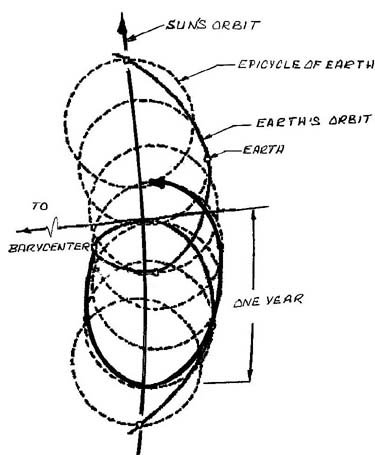 Sketch showing apparent motion of the Earth.